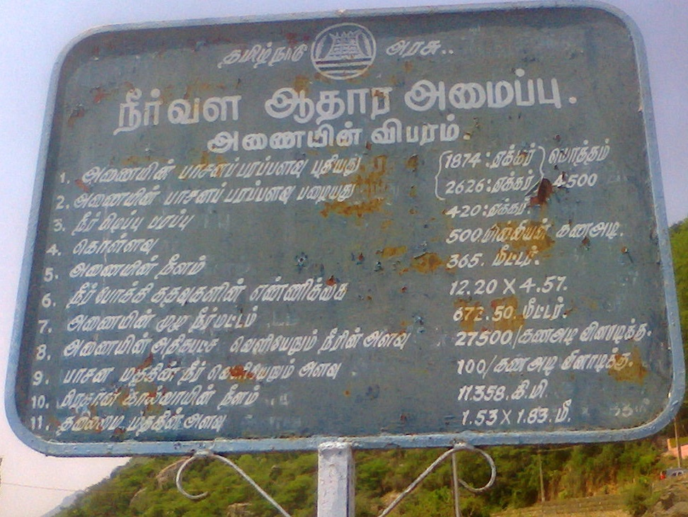 அணை தகவல்பலகை